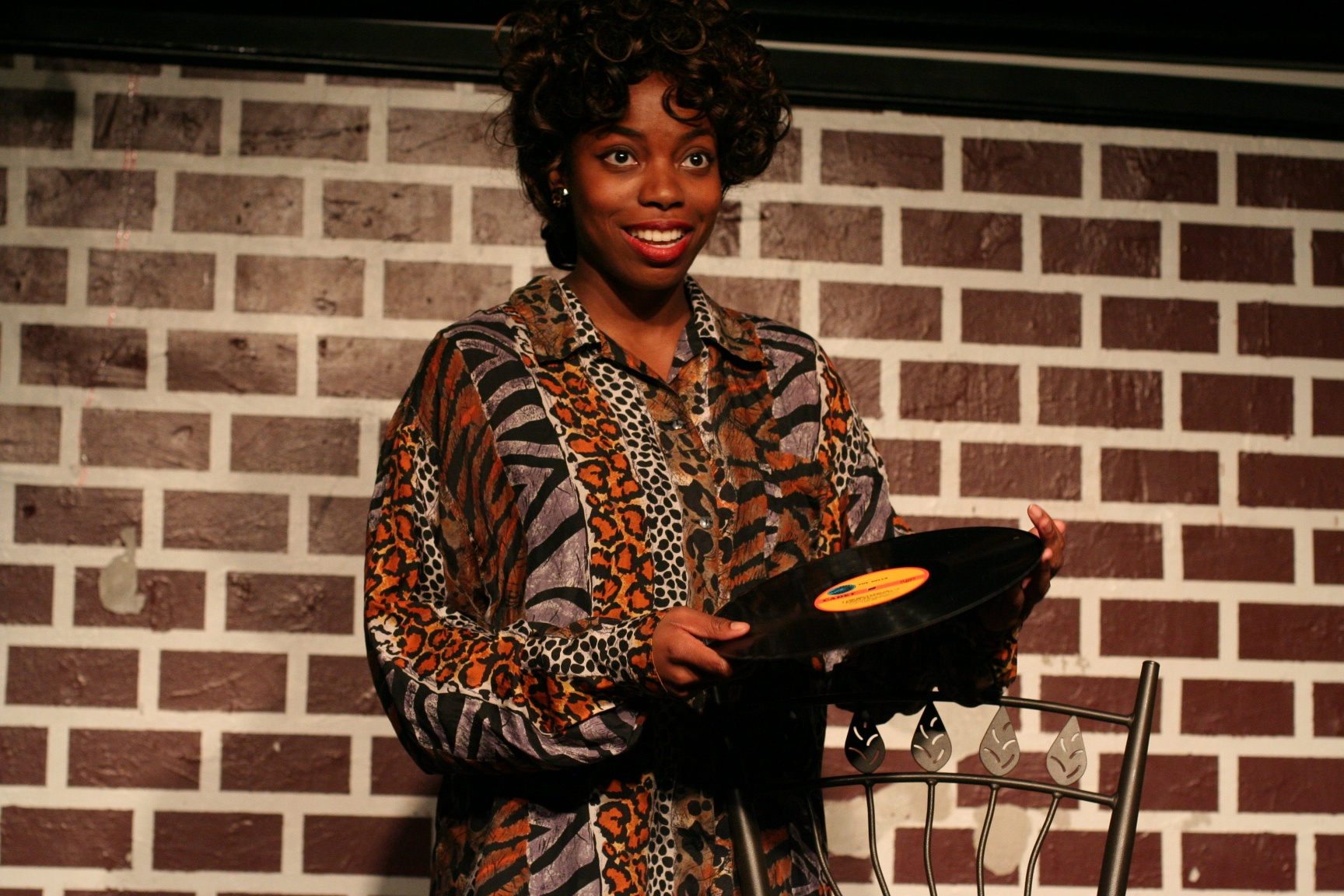 American comedian Sasheer Zamata from "Overload the Machine", a monthly comedy show at The People's Improv Theater. Featuring some of the best comedians in NYC performing as characters.